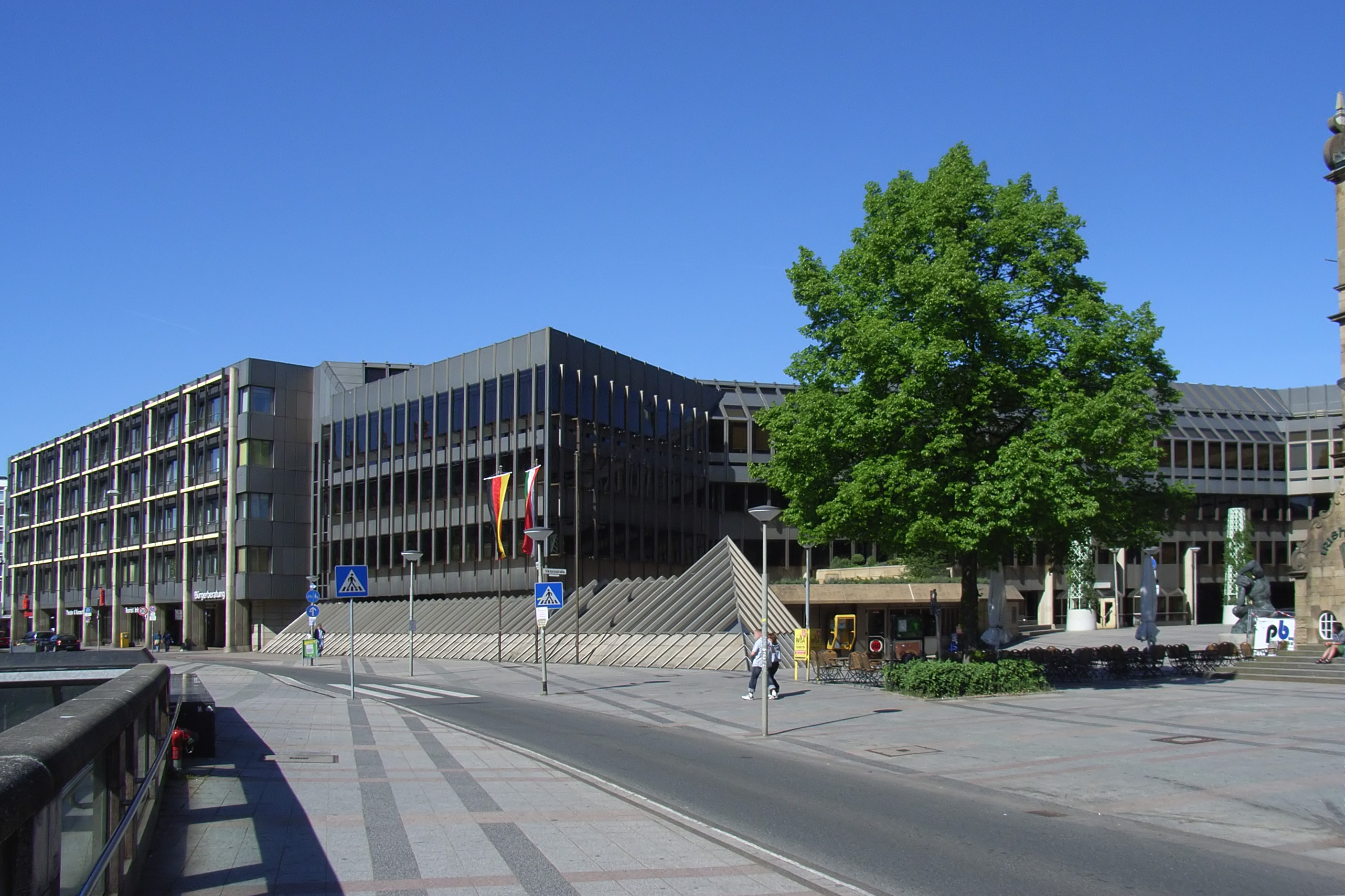 Bielefeld, Germany: City hall